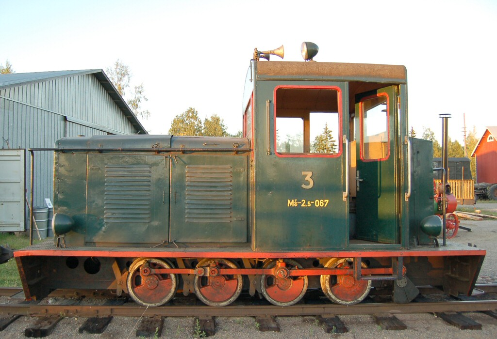 A Finnish Move21 class narrow gauge diesel locomotive, ex. JR3 (Jokioinen Railway). A total of 76 Move21 class locomotives were built by Valmet in 1946–1952 as war compensation, however 11 of them were never shipped. Currently the pictured locomotive is in service on Jokioinen Museum Railway.